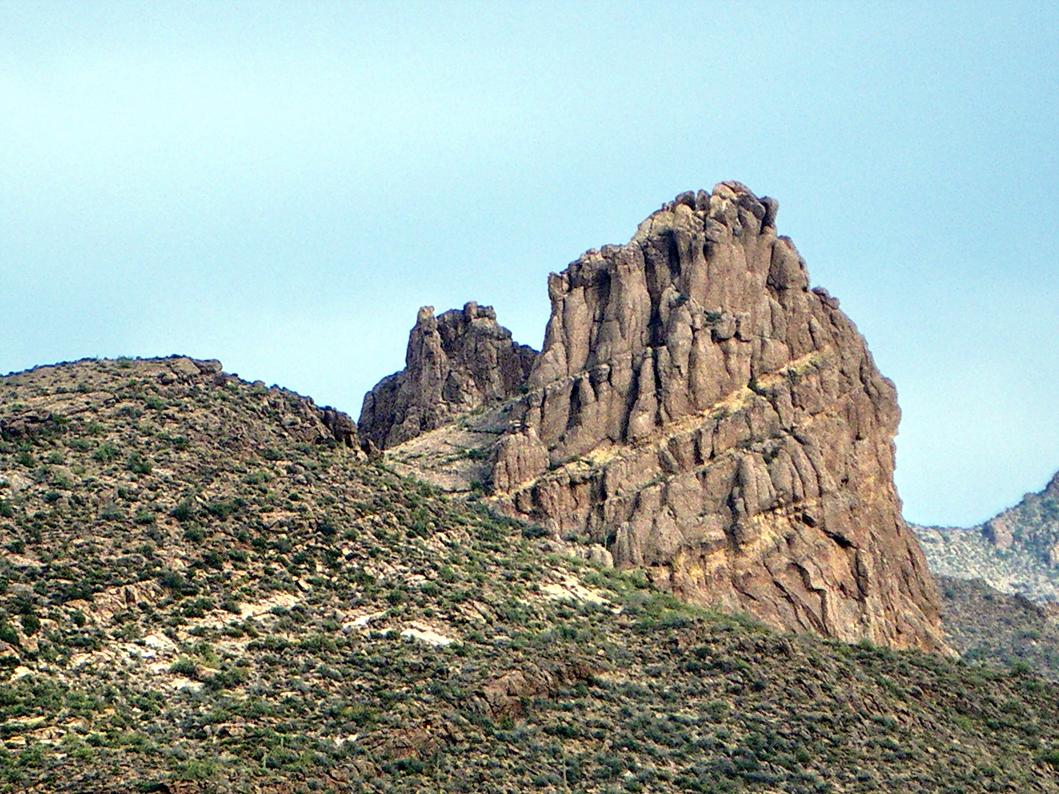 This is the view looking northeast at Miner's Needle from the Bluff Spring Trail. This area figures prominently in the legends of gold in the Supes. The Lost Dutchman's Mine is thought to be near here. I hiked the Charleyboy Duece Loop - the hike shown as Charlebois Loop II in "Hiker's Guide to the Superstition Wilderness" by Jack Stewart and Liz Carlson. From Wikipedia: "The Superstition Mountains, popularly referred to as "The Superstitions" or "The Supes", are a range of mountains in Arizona located to the east of the Phoenix metropolitan area. They are anchored by Superstition Mountain, a large mountain that is a popular recreation destination for residents of the Phoenix, Arizona area. The mountain range is in the federally-designated Superstition Wilderness Area, and includes a variety of natural features in addition to the mountain that is its namesake. Weaver's Needle, a prominent landmark and rock climbing destination set behind and to the east of Superstition Mountain, is a tall erosional remnant [1] that plays a significant role in the legend of the Lost Dutchman's Gold Mine. Peralta Canyon, on the northeast side of Superstition Mountain, contains a popular trail that leads up to Freemont Saddle, which provides a very picturesque view of Weaver's Needle. Miner's Needle is another prominent formation in the wilderness and a popular hiking destination."